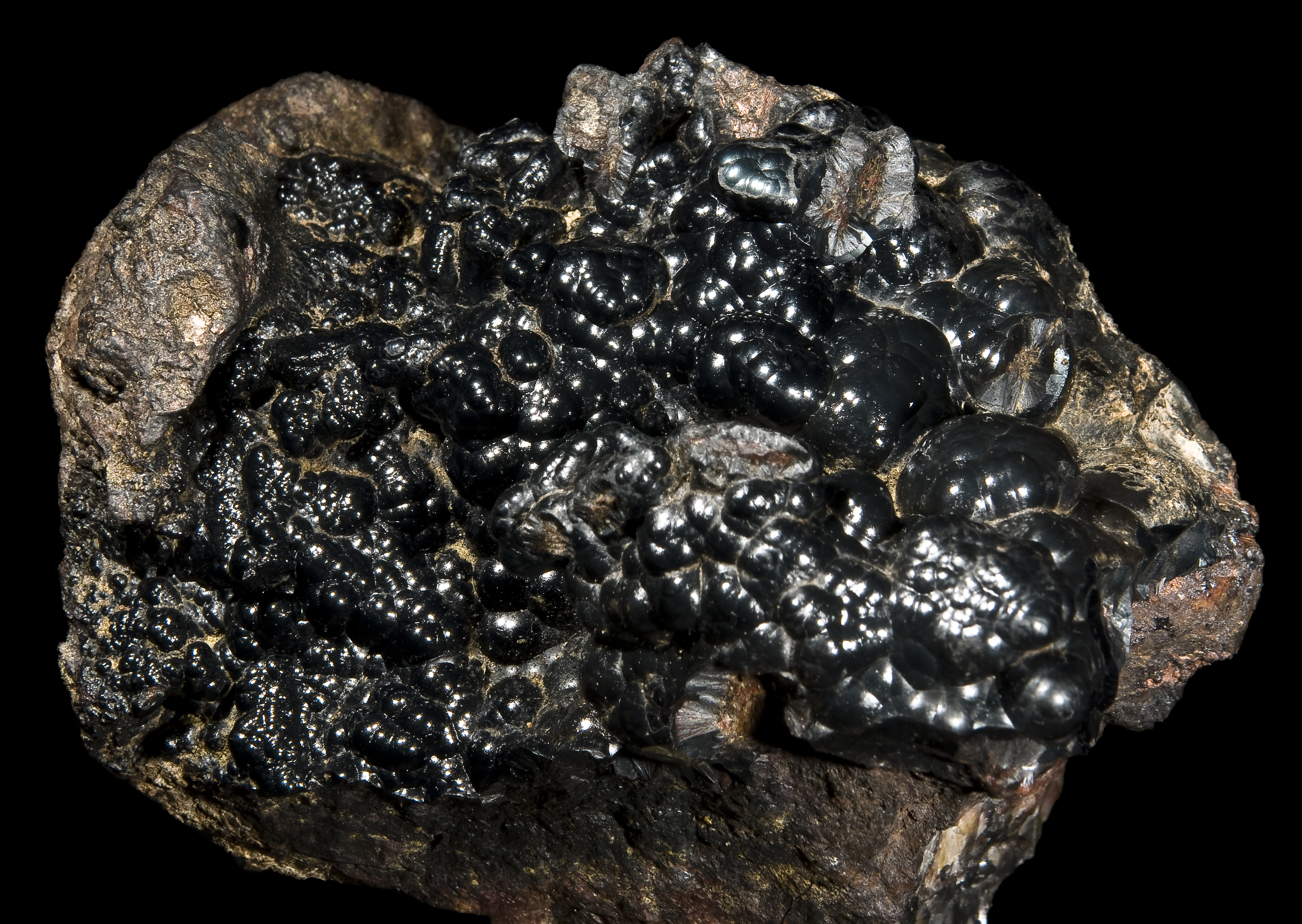 Hematite Locality : Rancié Mines, Ariège, Midi-Pyrénées, France Size : (9x6.5cm)